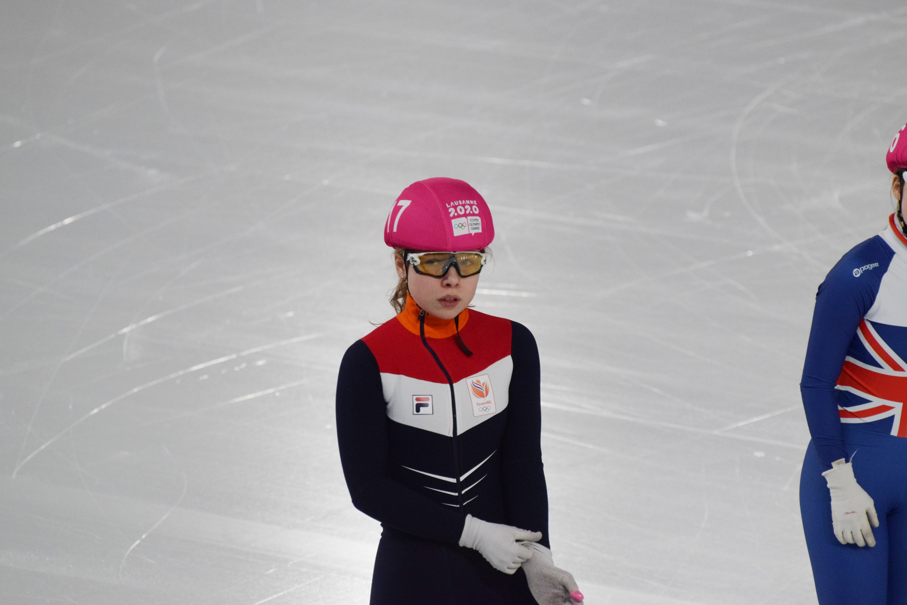 Lausanne 2020 YOG Short Track Speed Skating 1000m Women's Heat 4